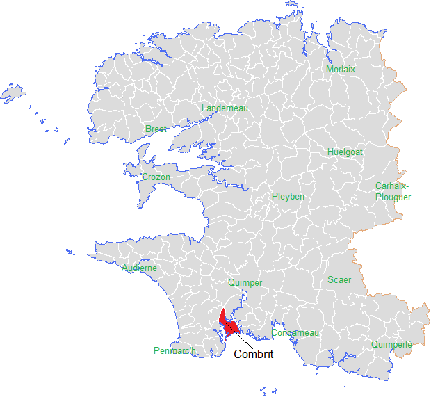 placement Combrit in departement Finistère